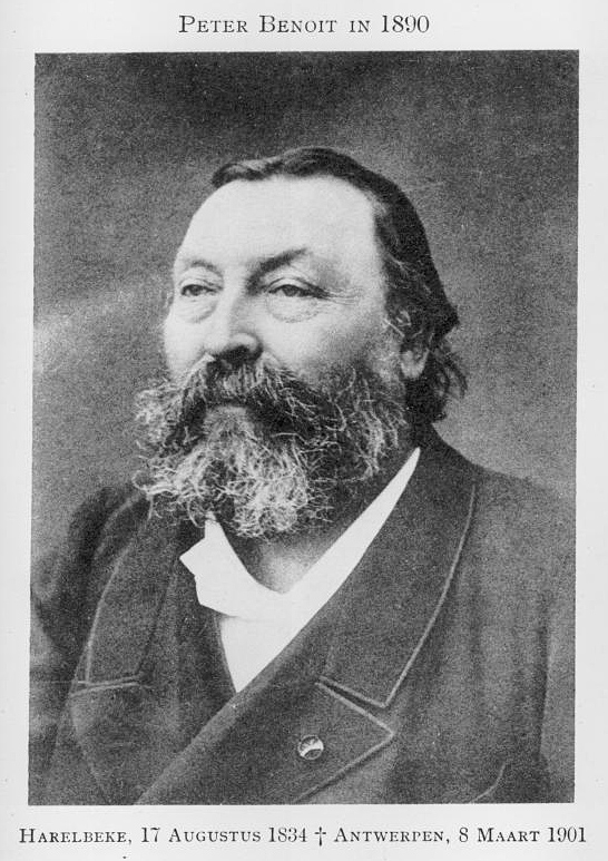 The Belgian composer Peter Benoit (1834–1901)